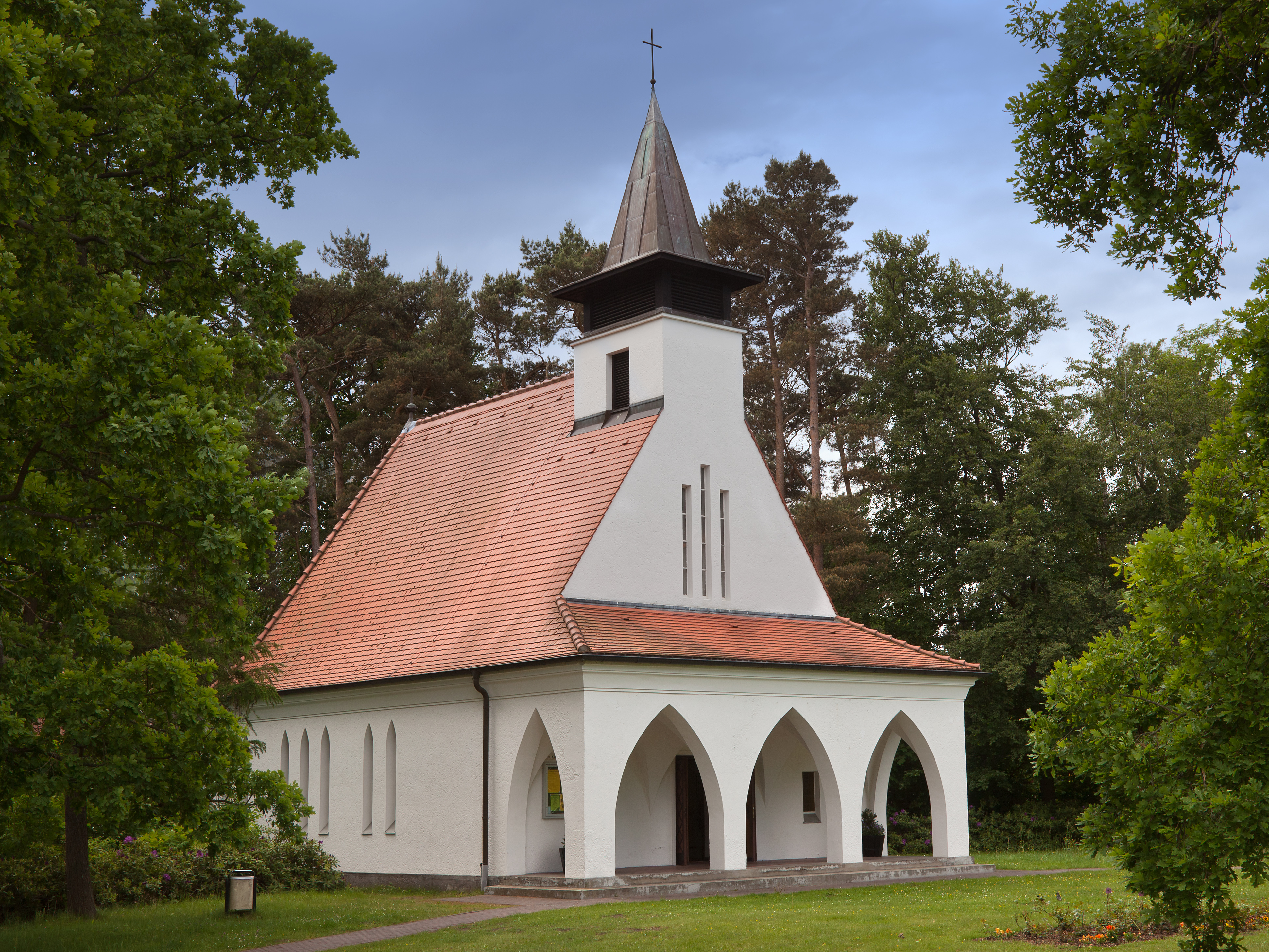 Baabe, church